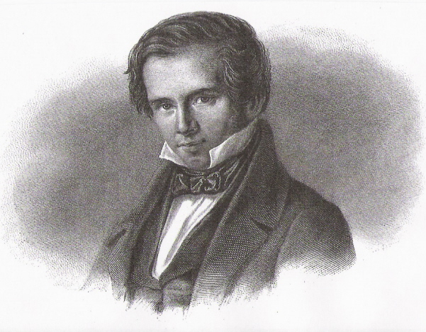 Summary A drawing of Karl August Nicander, The author of the drawing is unknown, but it is more than a hundred years old, possibly 140 years old (since the book was printed in 1862, and it was the third edition, it can be assumed that the picture predates the year 1862). Bild:K-A-nicander.jpg